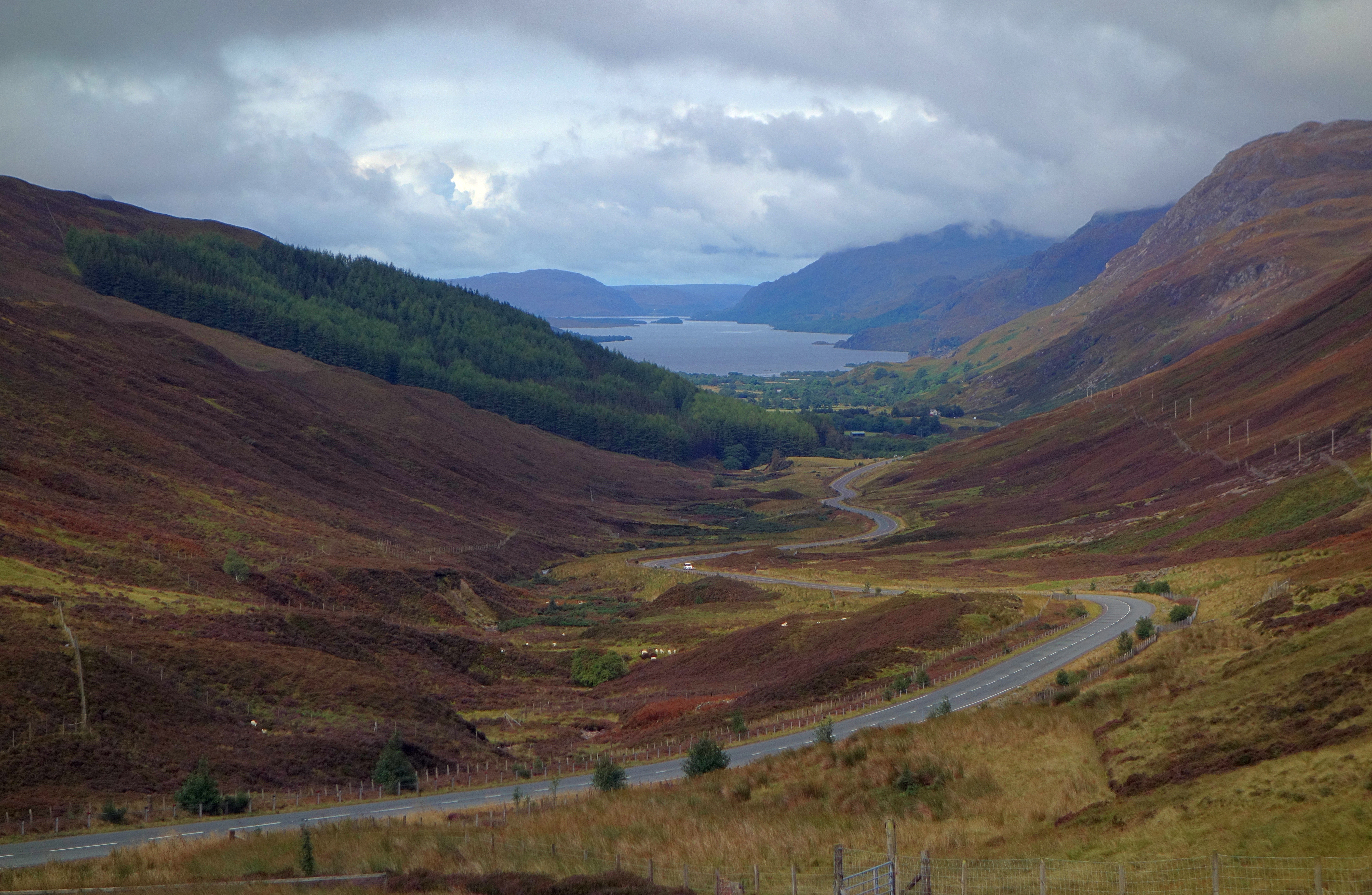 A view down Glen Docherty in the Scottish Highlands towards Loch Maree